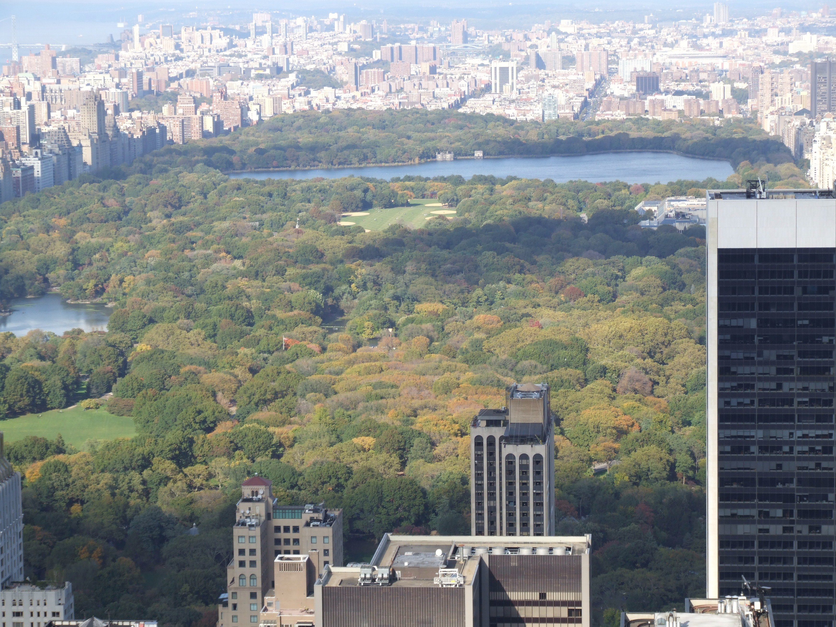 A view over Central Park taken from Top Of The Rock, 30 Rockefeller Plaza